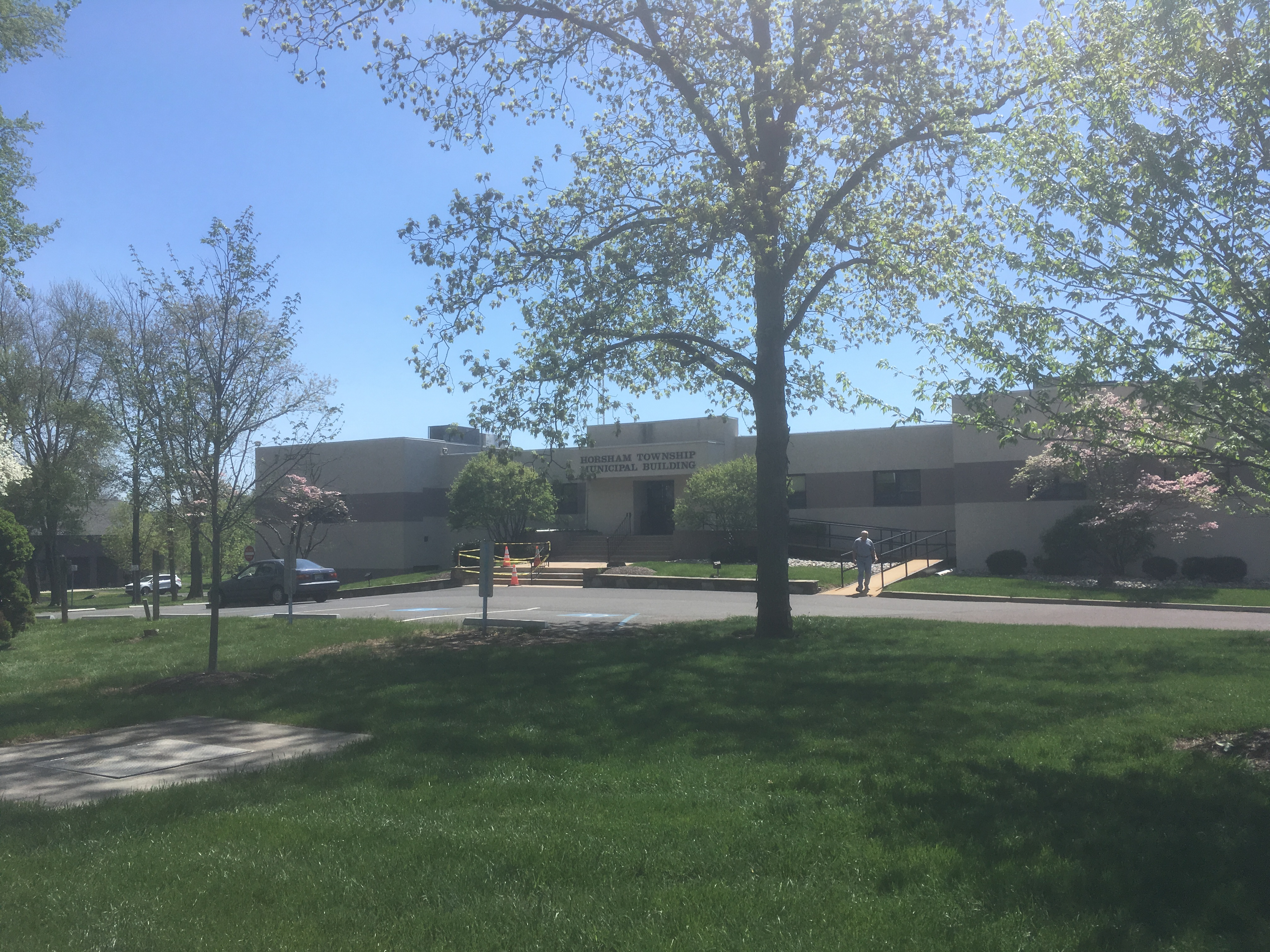 The municipal building in Horsham Township, Montgomery County, Pennsylvania